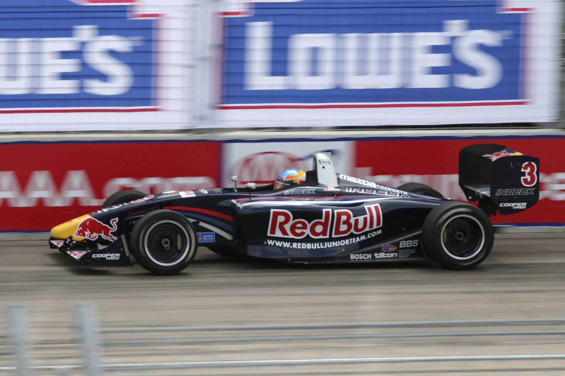 Robert Wickens driving at the Grand Prix of Houston Champ Car Atlantic support race in 2007.